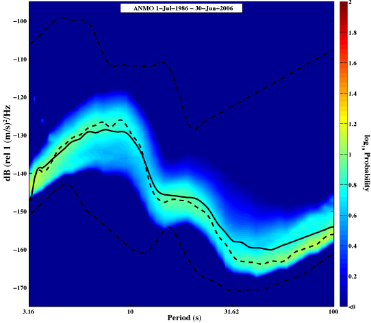 This image was constructed by Rick Aster, Professor of Geophysics, New Mexico Tech, using open data from the Global Seismographic Network.